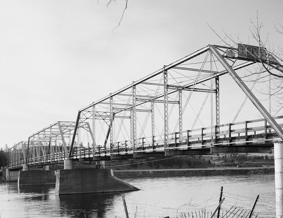 Missouri River Bridge, spanning the Missouri River at Bridge Street in Craig — Lewis and Clark County, Montana. HAER—Historic American Engineering Record images of Montana (cropped).